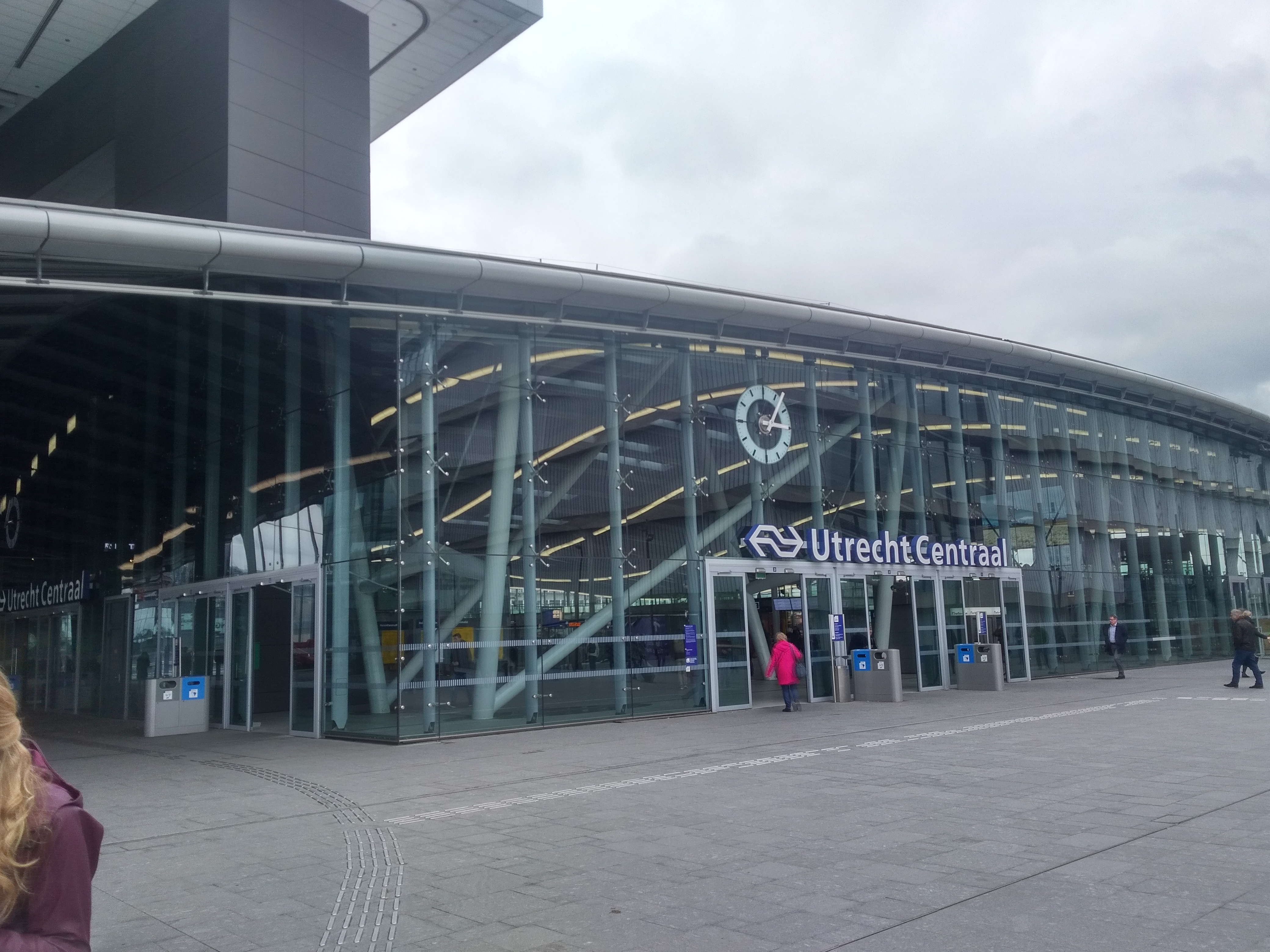 A view of the entrance of the Utrecht Central Station.